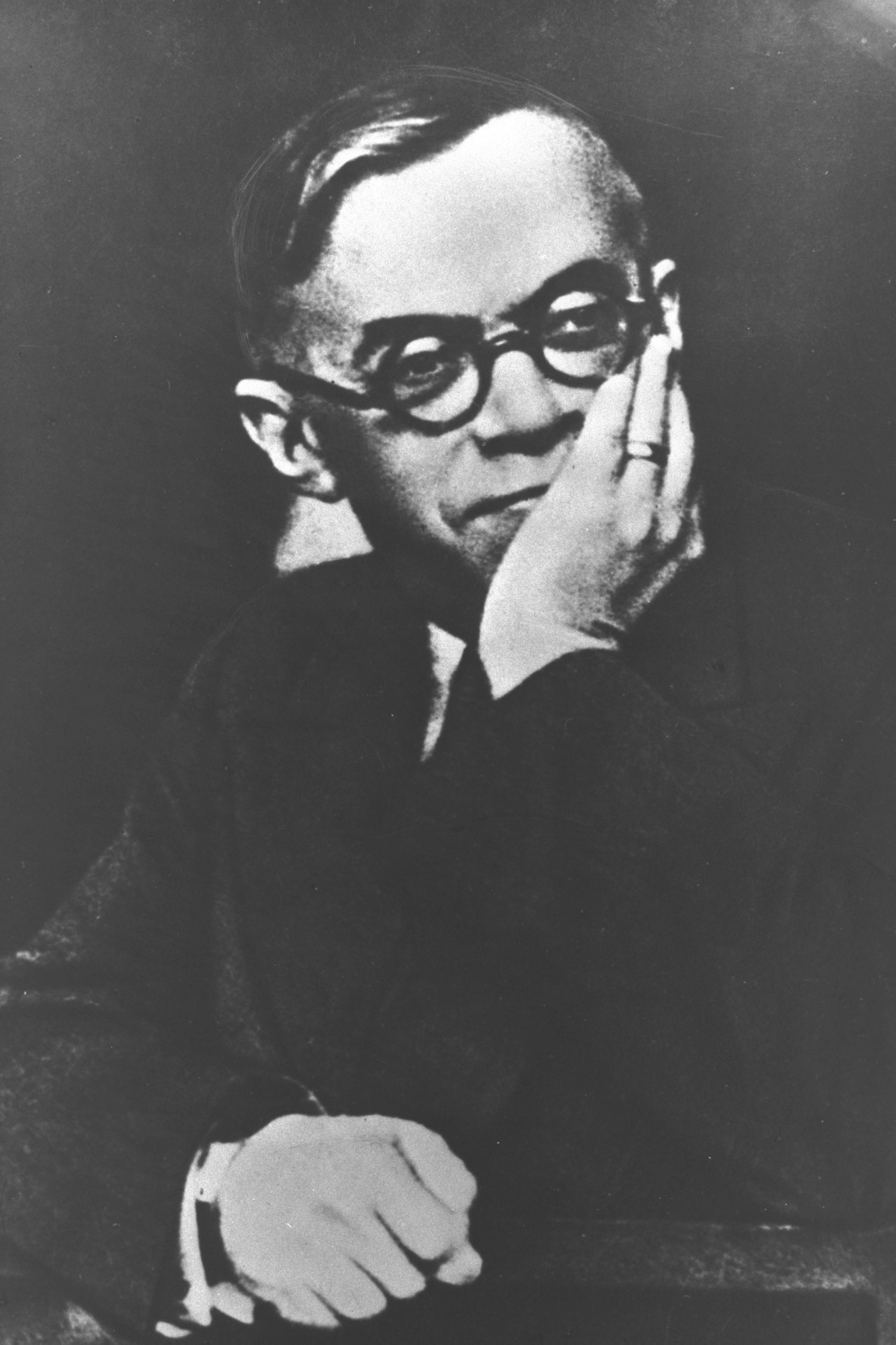 ZEEV JABOTINSKY. פורטרט של זאב ז'בוטינסקי.